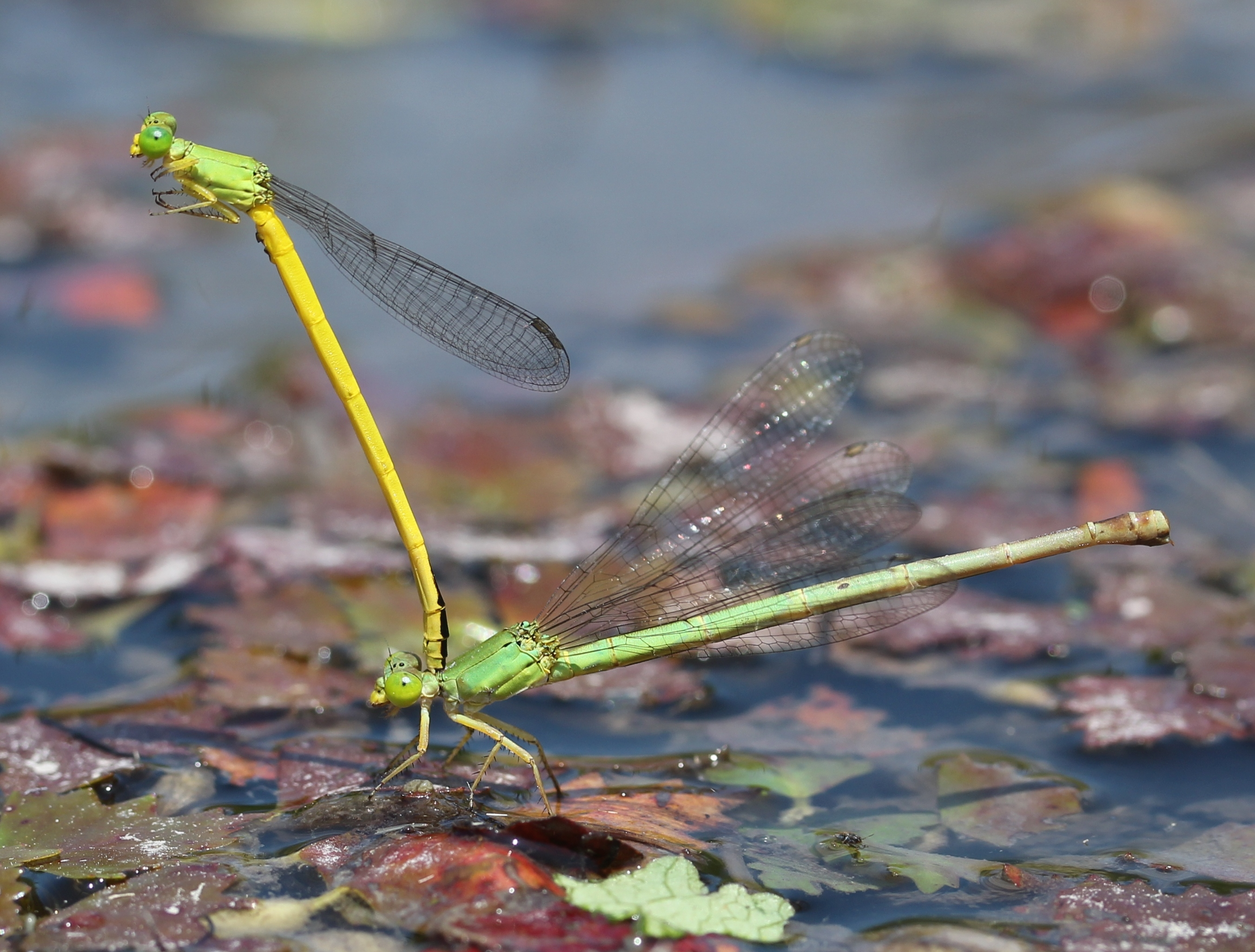 Female and male of Ceriagrion melanurum in Nakaikemi Wetland, Tsuruga, Fukui prefecture, Japan.